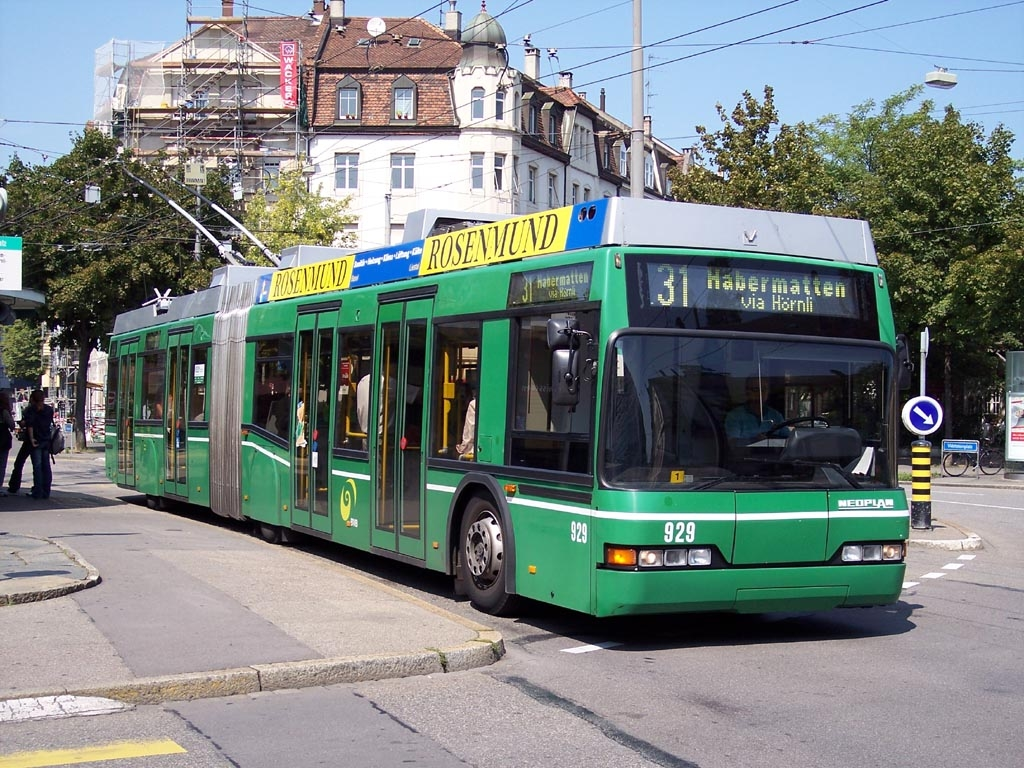 Basel's last trolleybuses, due for replacement with CNG-fulled buses, are a fleet of Neoplan N 6021 artics notable for their unusual door arrangement and large driver's cab. Number 929 was employed on the last remaining route when photographed.